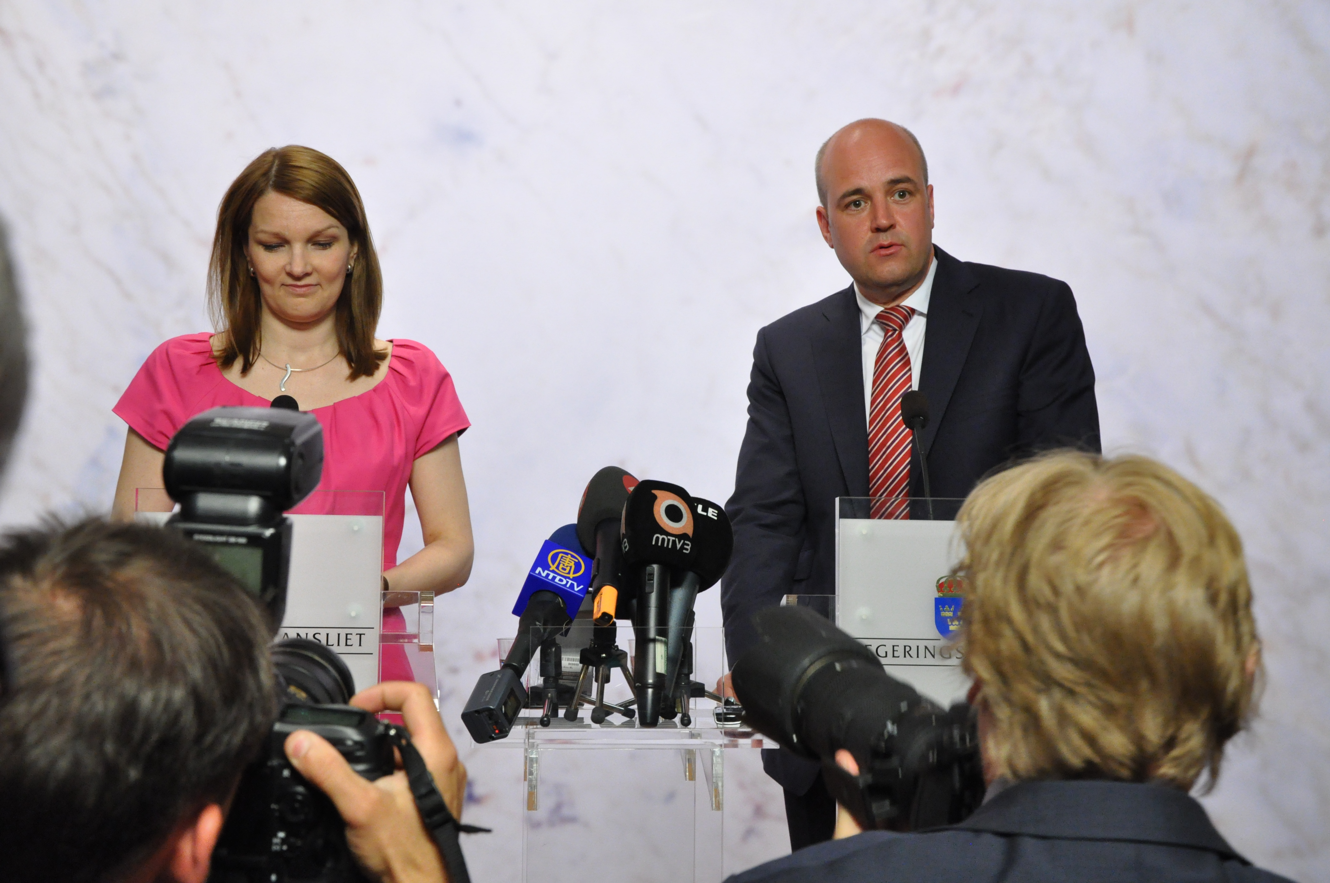 Mari Kiviniemi on her first official visit as prime minsiter, to Sweden and Fredrik Reinfeldt